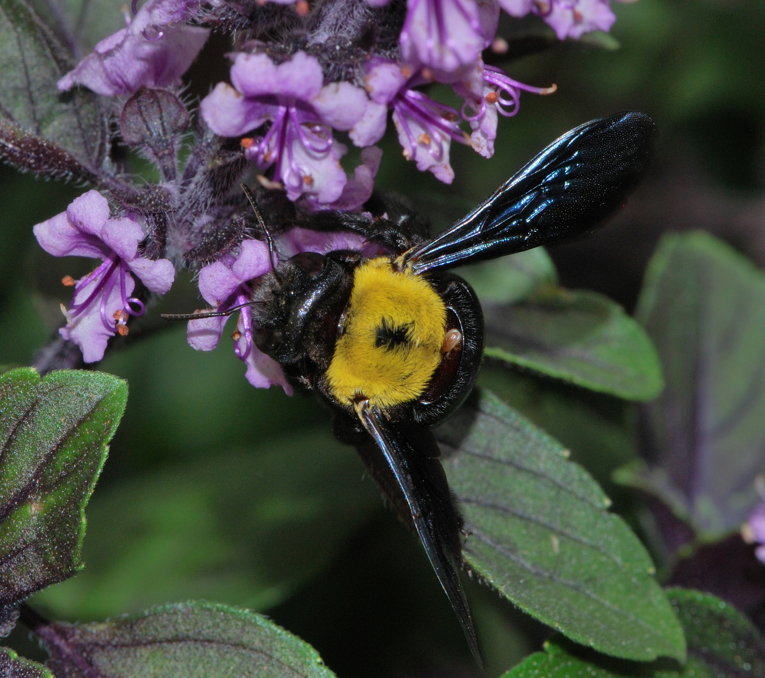 Female of Xylocopa pubescens foraging on basil. A Symbiotic mite (Dinogamasus sp.) can be seen protruding from the bee's acarinarium. Photographed in Tel Aviv, Israel, March 8, 2010.